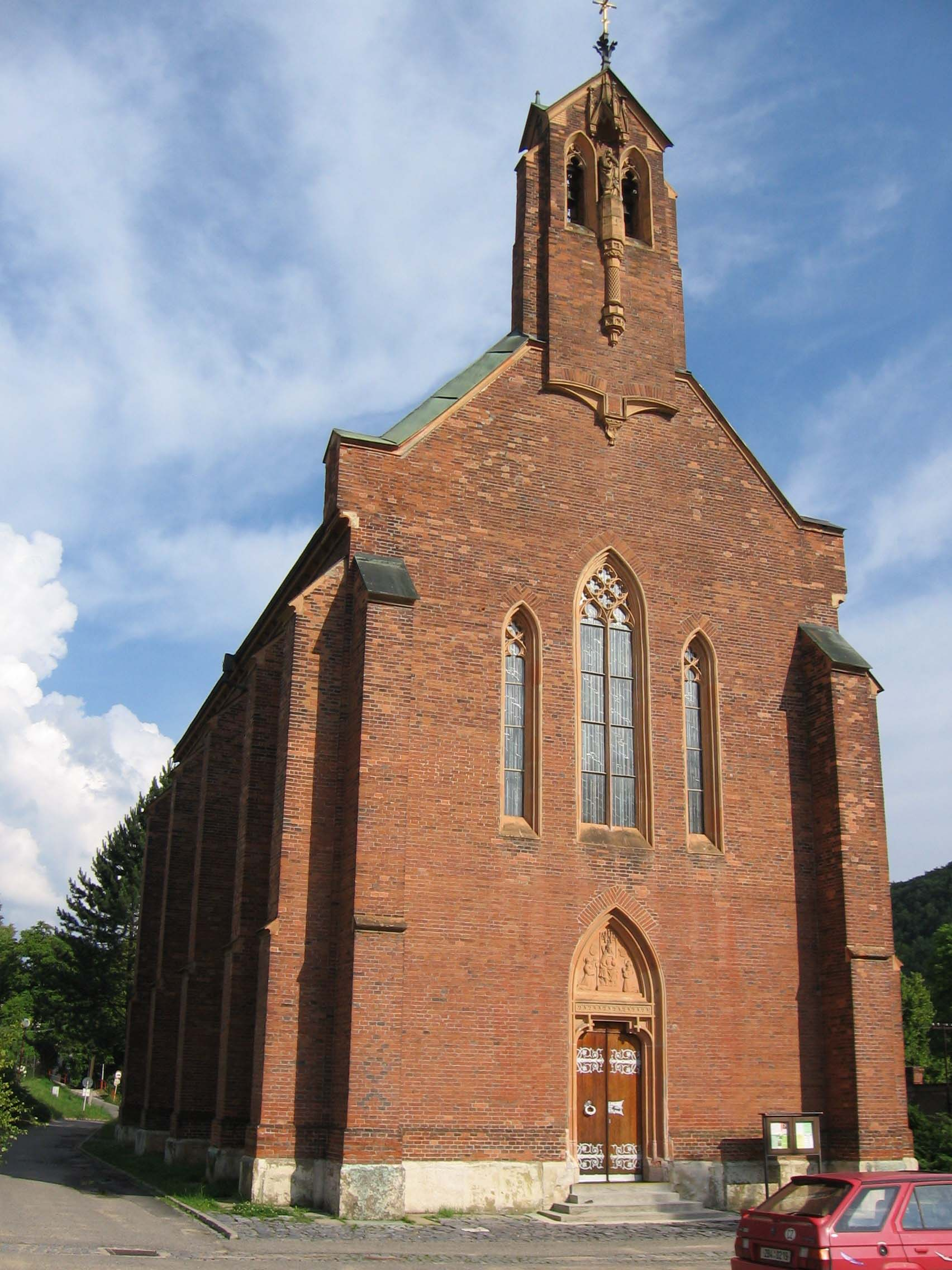 Church of St Barbara in Adamov.